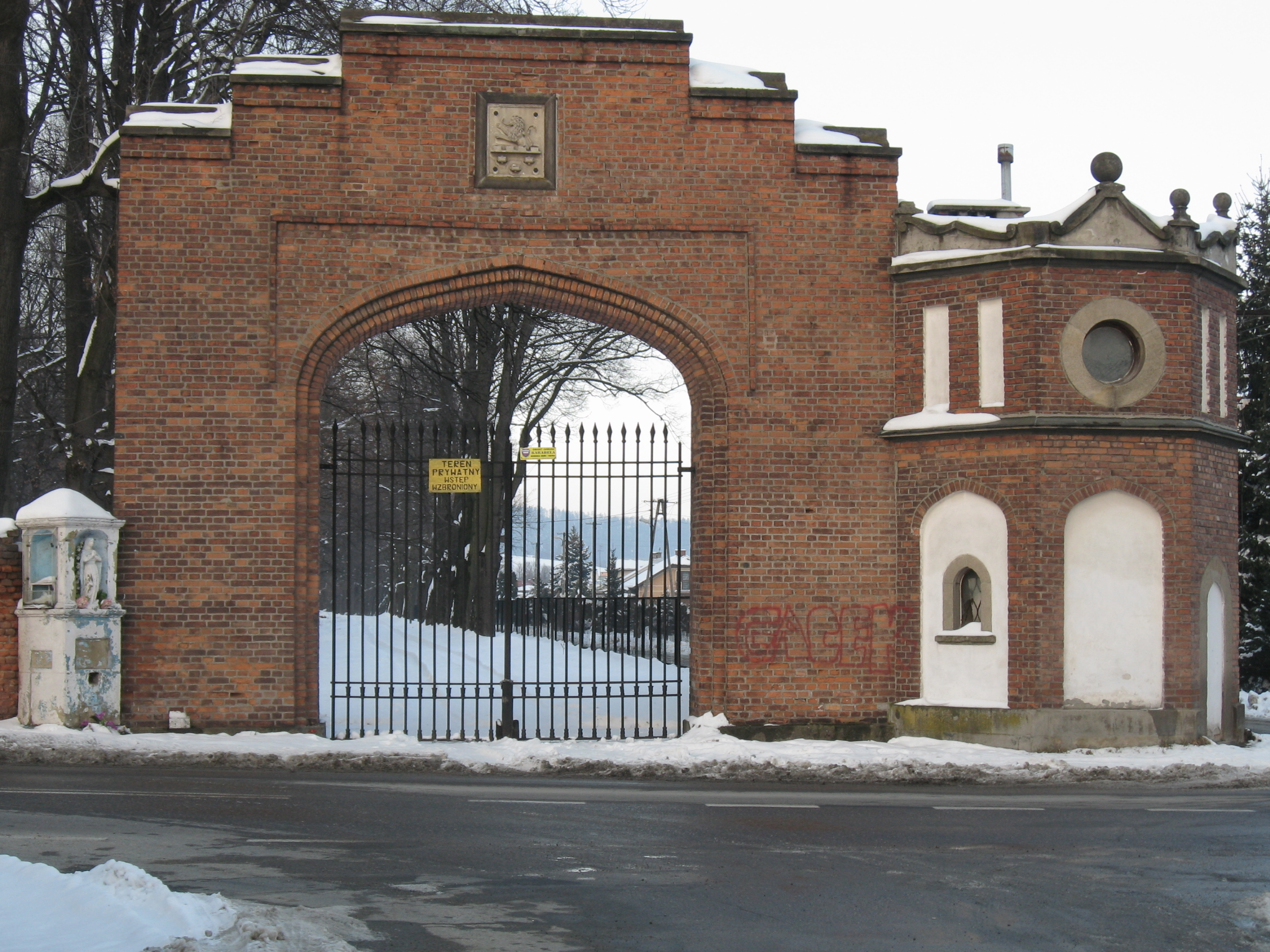 Entry gate to the palace and park in Zagórzany, Gorlice County.